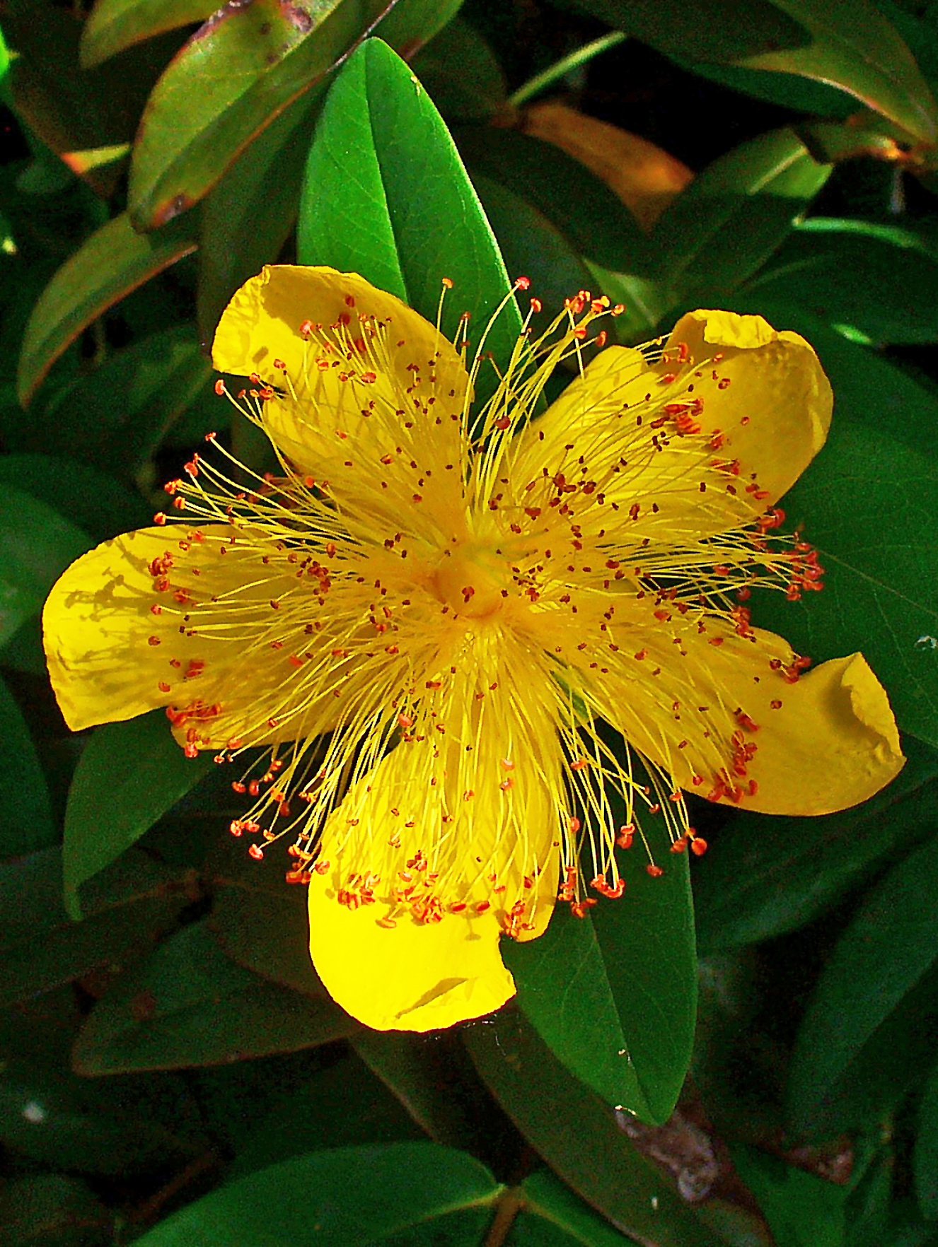 Hypericum calycinum, Hypericaceae, Aaron's Beard, Great St-John's Wort, and Jerusalem Star, flower; Karlsruhe, Germany.